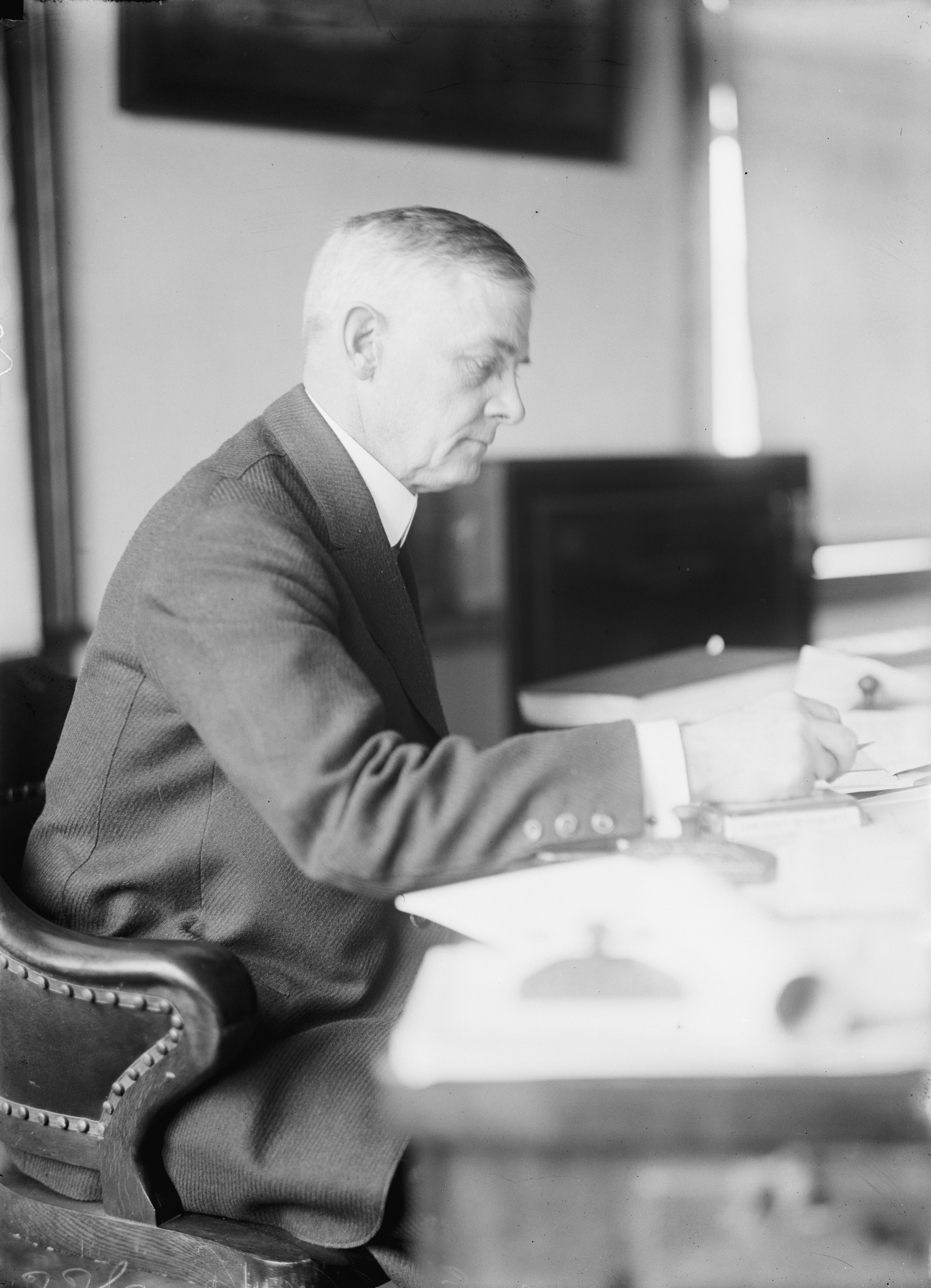 Edgar Erastus Clark circa 1915